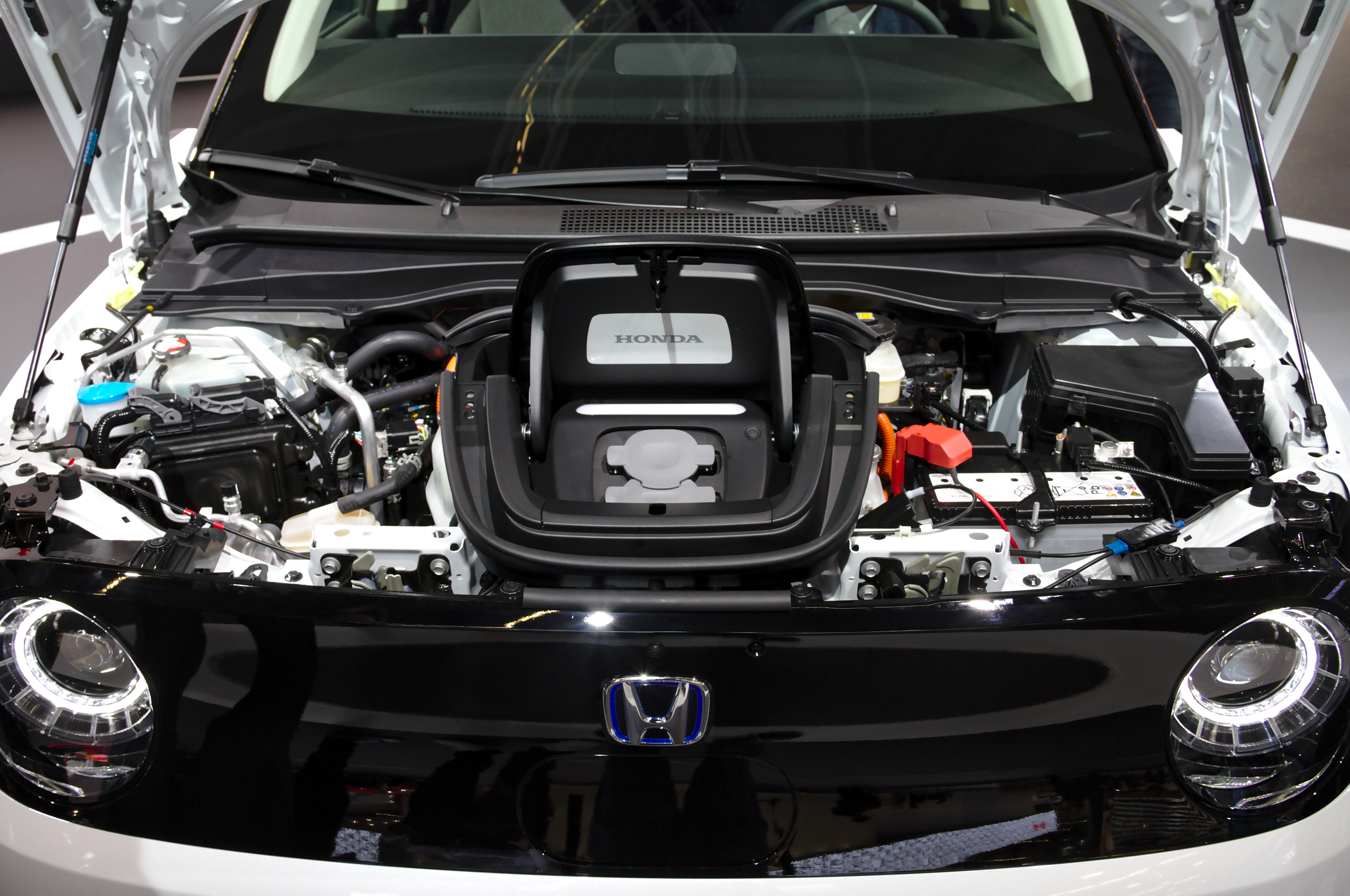 Honda_e at IAA 2019